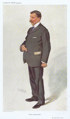 Caricature of Sir Philip Watts in Vanity Fair 7 April 1910. Caption read "Naval Construction"